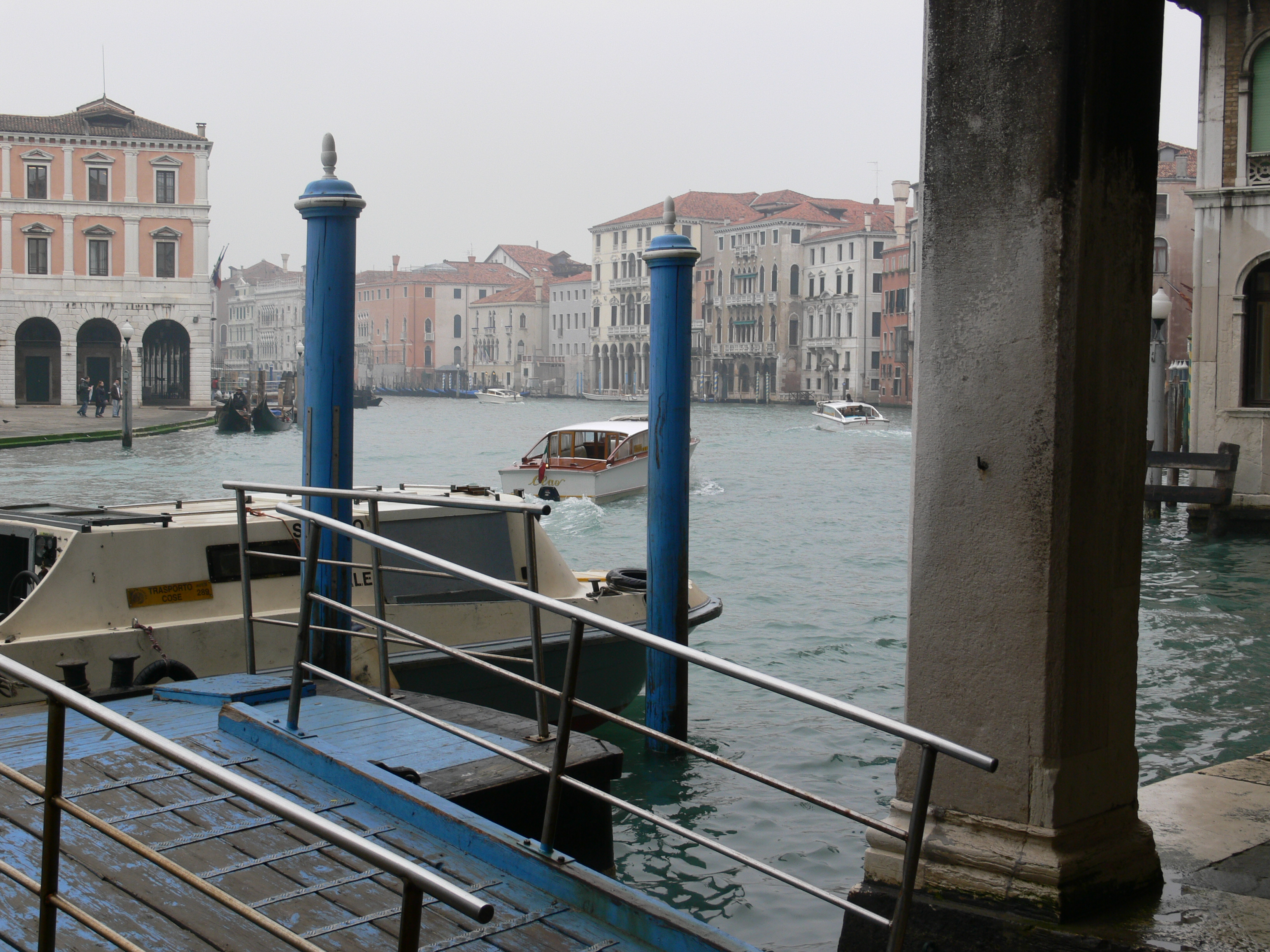 View from the Fondaco dei Tedeschi to the Canal Grande, Venezia, Italy